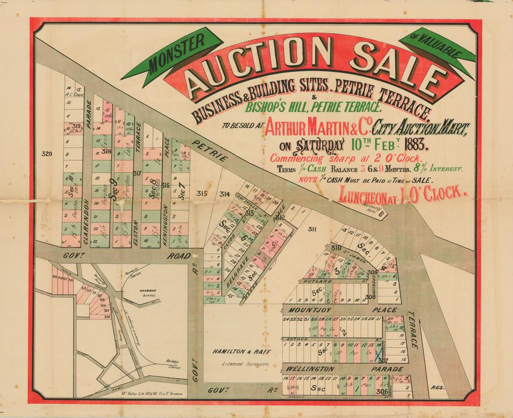 Estate map of Bishop's Hill, Petrie Terrace, Brisbane, Queensland, 1883 Plan of allotments to be sold 10th February, 1883 by Arthur Martin & Co., auctioneers. The surveyors were Hamilton & Raff. The map shows streets adjacent to Petrie Terrace and what is now known as Musgrave Road, including Mountjoy Street, Wellington Street, Belgrave Street, Cyde Street, Elston Street and Keningston Place (later known as Kensington Parade).